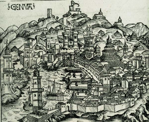 View of Genoa in Italy, around 1490.